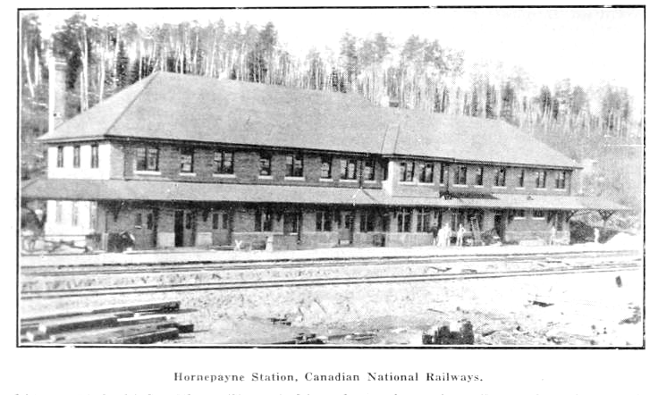 Photo of the Hornepayne railway station.